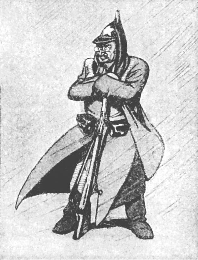 The picture depicts Leon Trotsky, the People's Commissar for Military and Naval Affairs USSR, as the Guard of the October revolution.